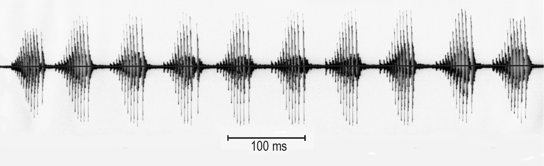 Sound image (Oscillogram) of a mating call from Pelophylax bedriagae with ten pulse groups. The call was recorded on tape in Judaydat Al-Wadi, near Damascus, Syria, at 16 °Celsius water temperature.